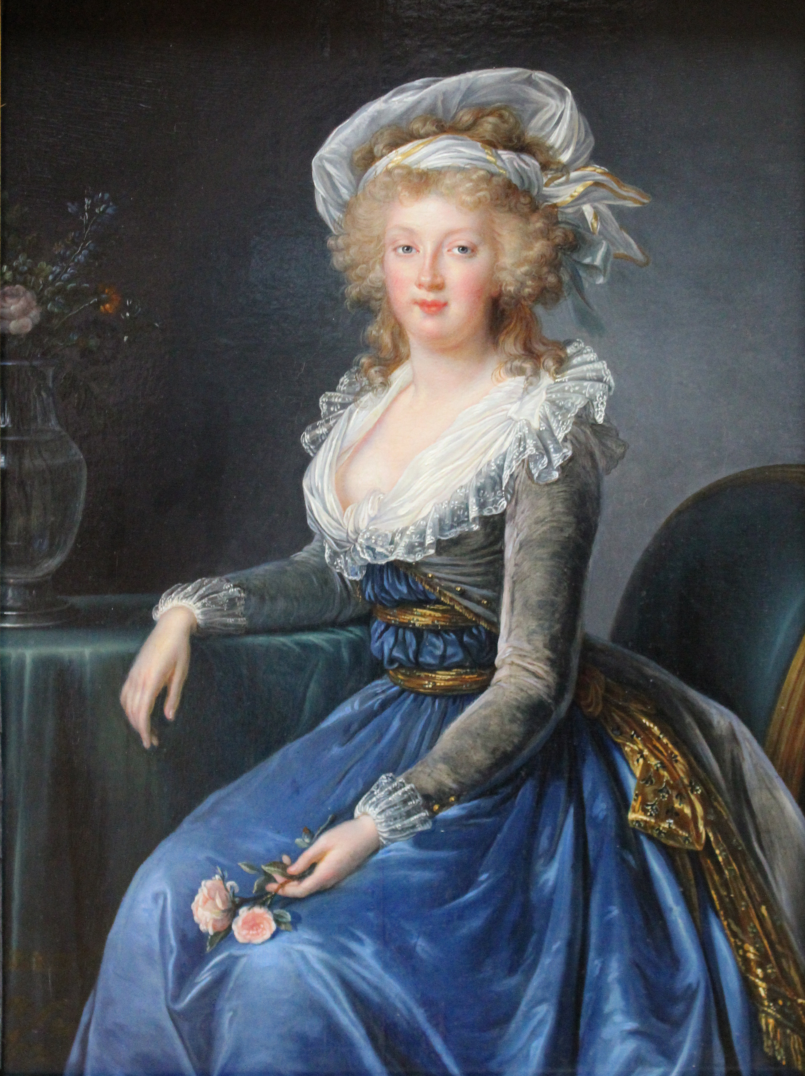 Château de Chantilly, Élisabeth Vigée-Lebrun, portrait Maria Theresa of Naples and Sicily